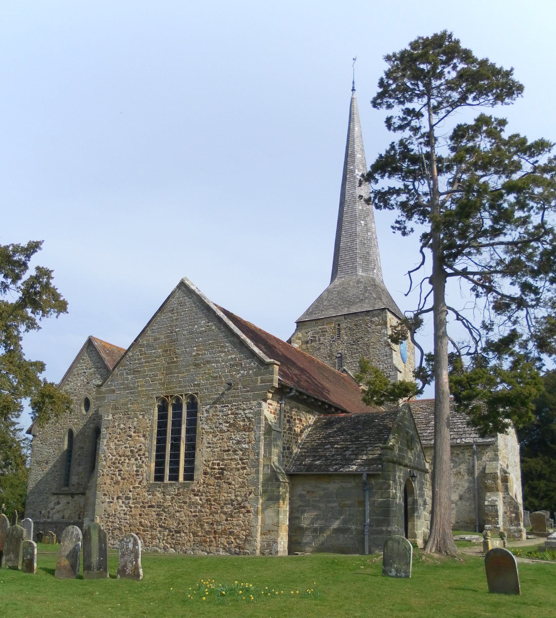 St Giles' parish church, Church Lane, Horsted Keynes, West Sussex, England, seen from the southwest 1025684)]